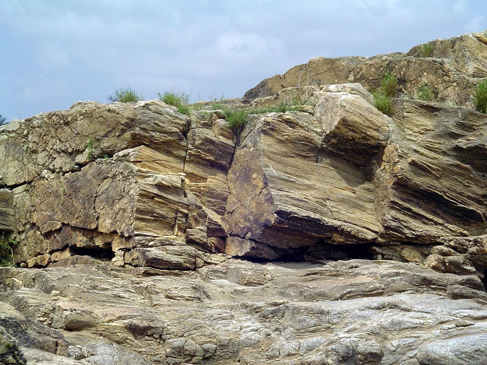 Sedimentary rock — on the southern Coromandel Coast, in the Karnataka District of Tamil Nadu state, southernmost India.